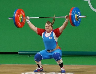 This is a cropped version of a larger photo uploaded by user Tm. Original author stated as Jonas de Carvalho and the original file name is: File:Rio 2016. Levantamento de pesos- weight lifting (28823096540).jpg